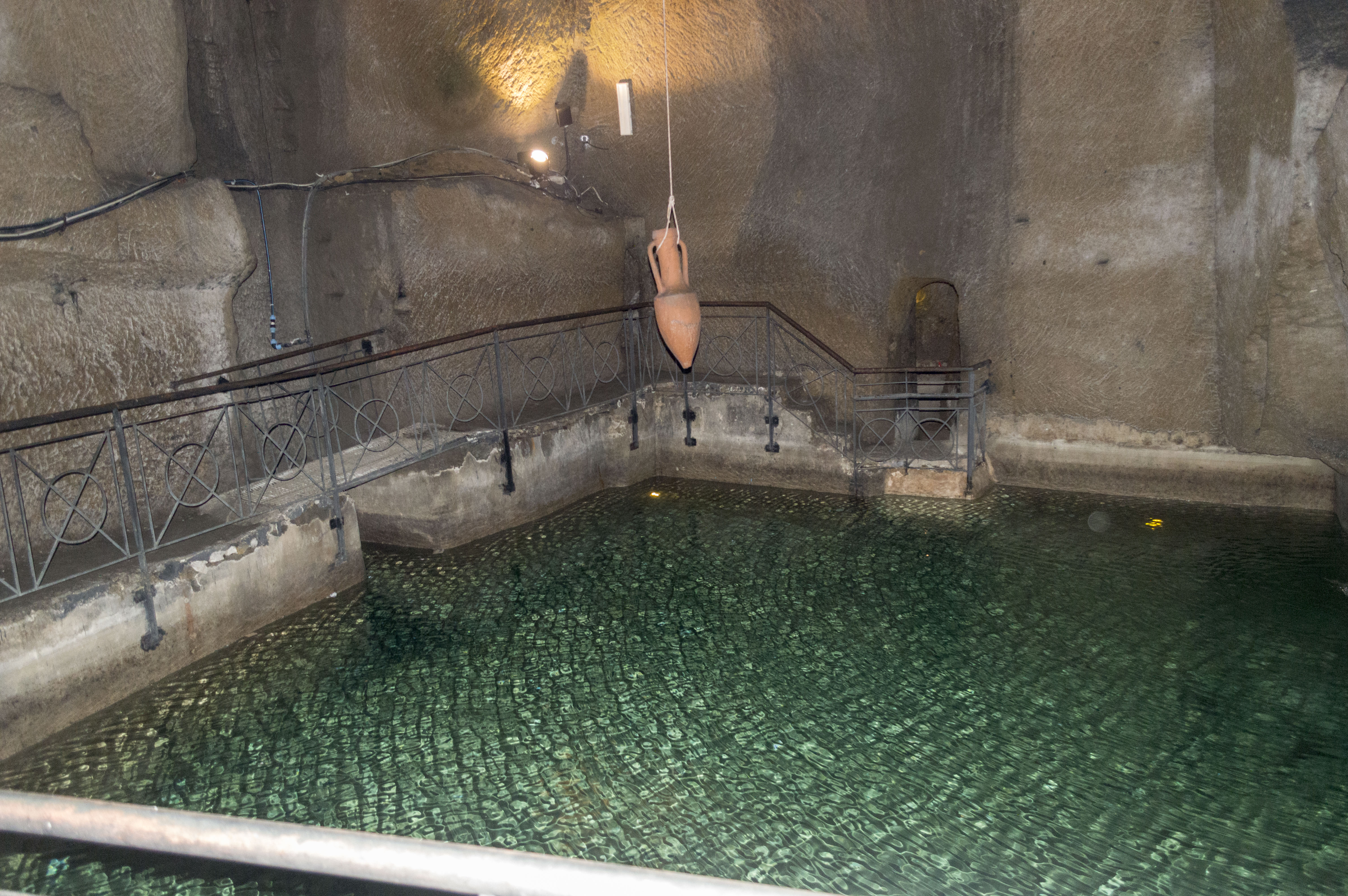 Underground of Naples.